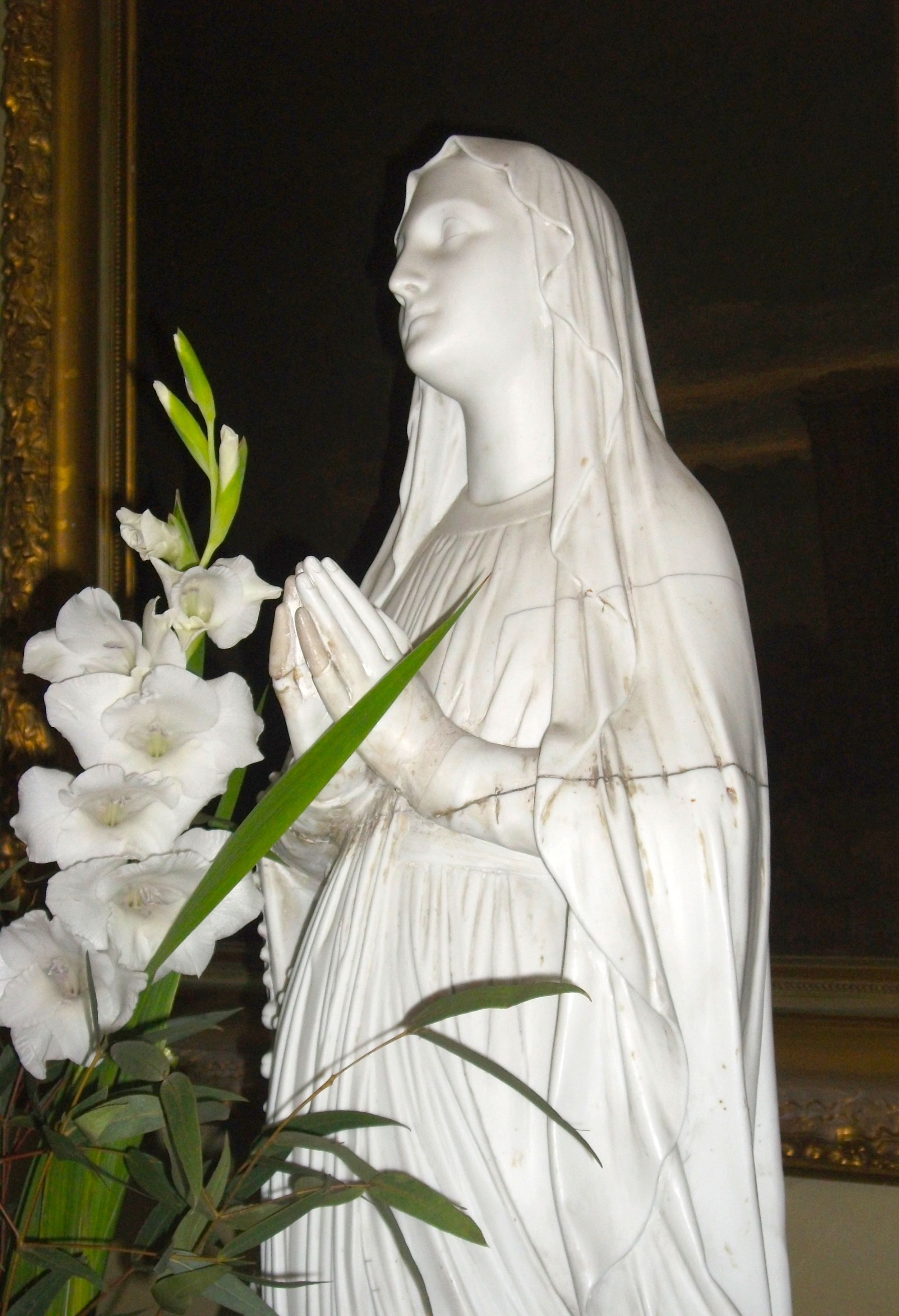 Tbilisi St. Peter-Paul Catholic Church